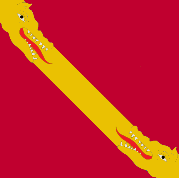 Royal Bend of Castile